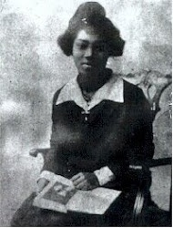 Gladys May Casely Hayford, daughter of Adelaide Casely-Hayford